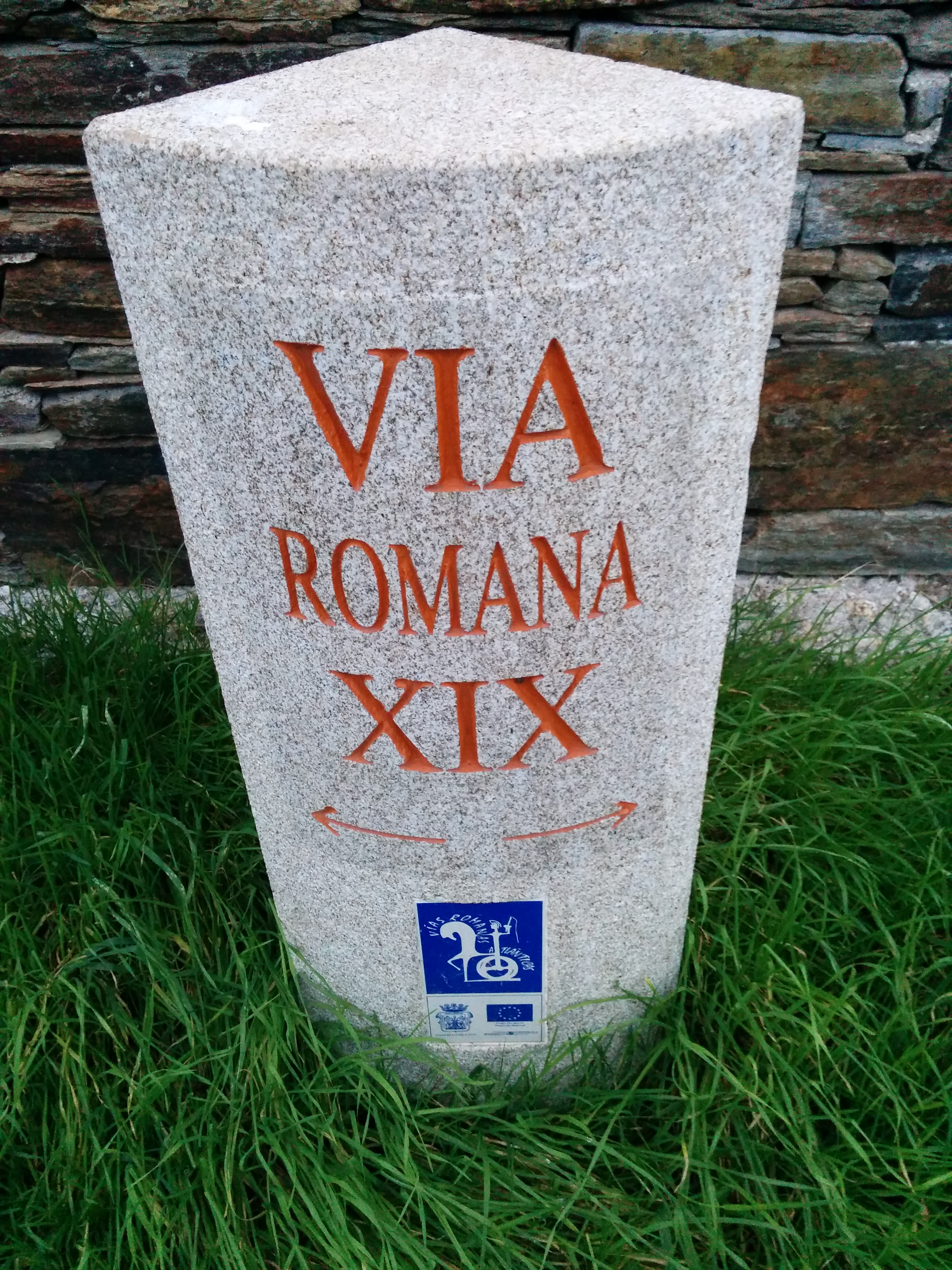 Modern milepost of the restored XIX roman road of the Antonine Itinerary, in Conturiz, Castro Parish, municipality of Lugo, province of Lugo, Galicia, Spain.